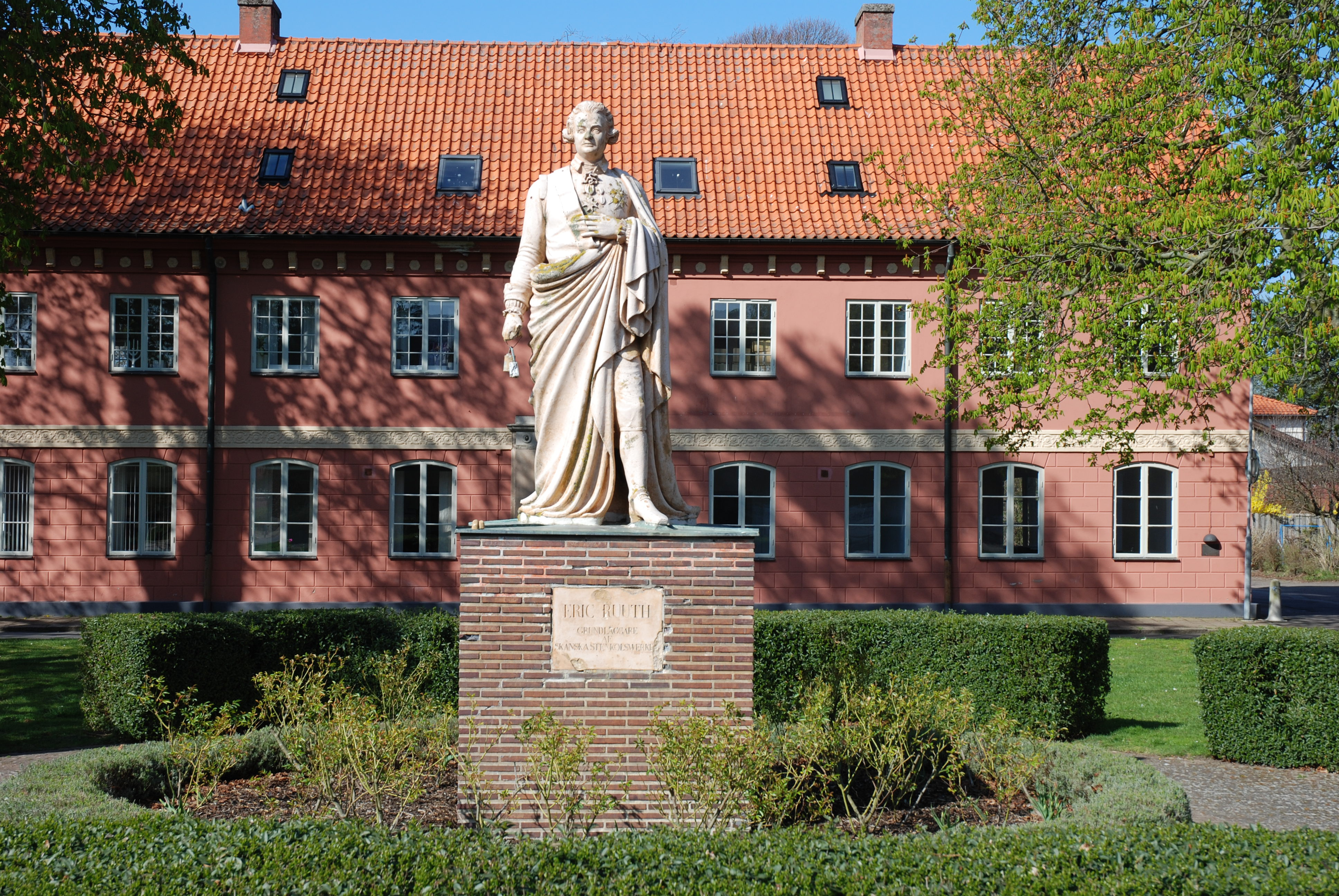 Statue of Eric Ruuth (1861), terracotta, by Ferdinand Ring, Höganäs, Sweden